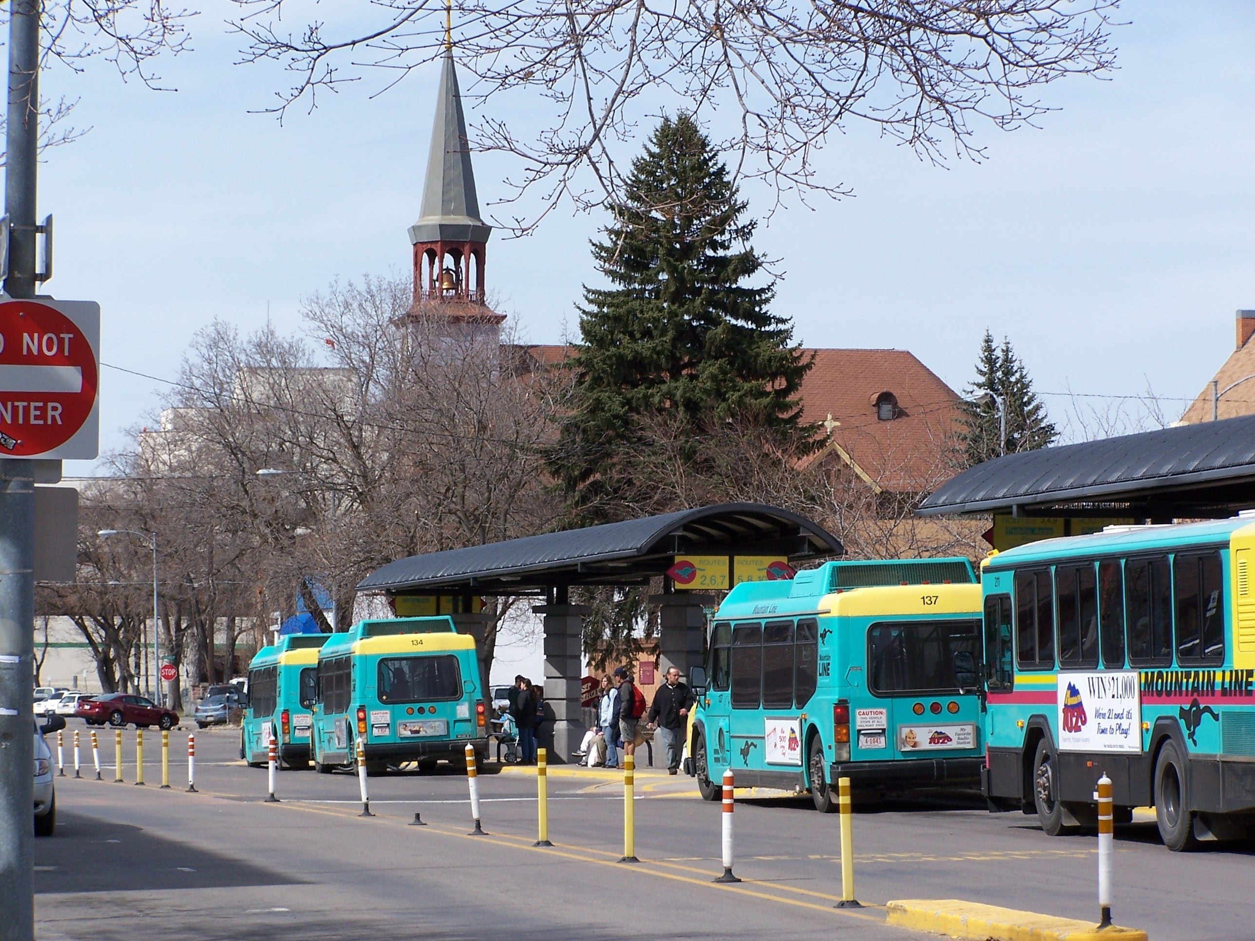 Missoula, Montana Bus dependent transit systems are less effective at reducing carbon emissions that electric powered LRT. They carry fewer people per unit and generate point source emissions that are the most significant source of climate change inducing emissions in our urban environments. While they clearly beat private automobility, bus transit has its limits that need to be recognized by those planning our transit futures.